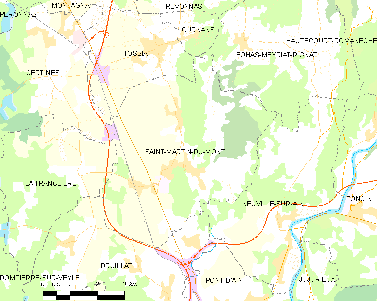 Map of French commune: Saint-Martin-du-Mont Map commune FR insee code 01374.png